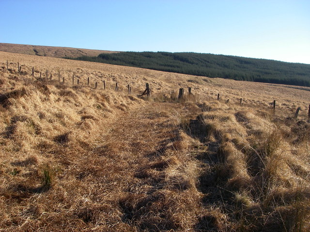 Brecon Forest Tramroad This is all that remains of the upper line which rises gradually from Cwm Gyhirych towards Pwll Byfre.